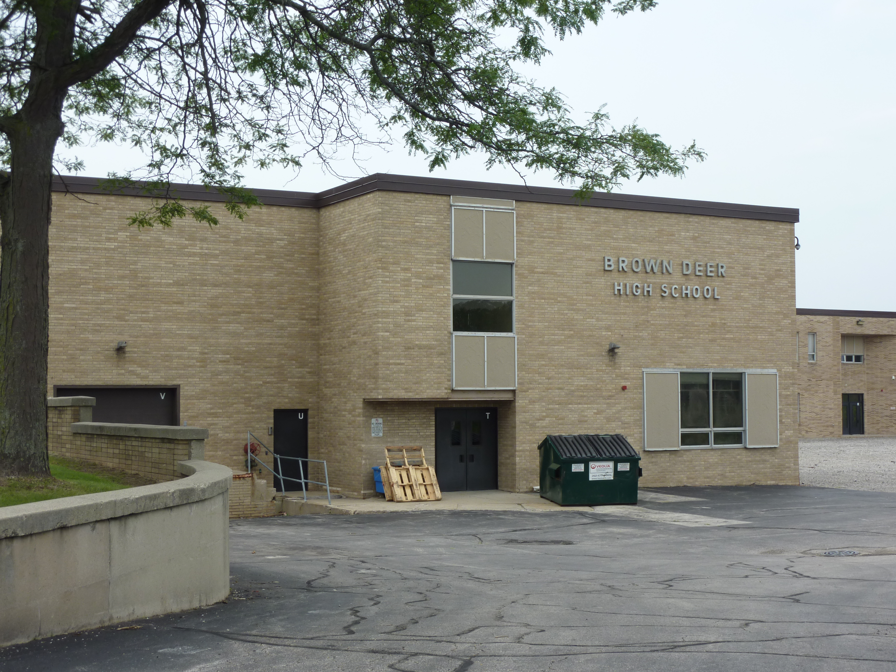 Brown Deer High School in Brown Deer, Wisconsin, near Milwaukee.